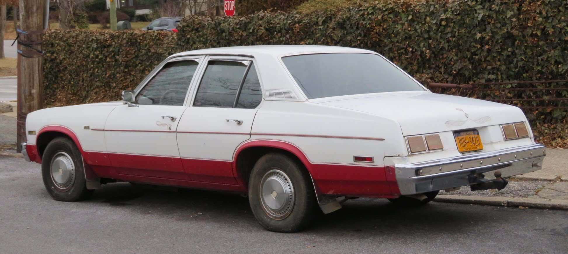 In Bayside, New York